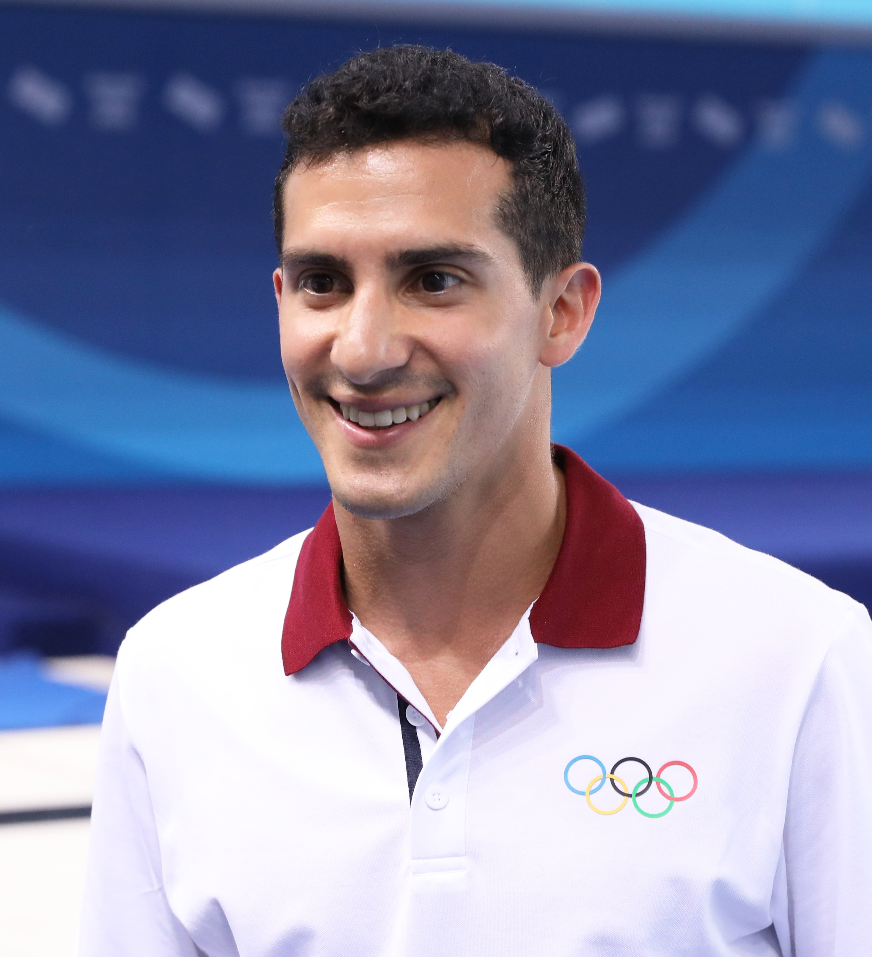 Boys' Diving, 10 m platform, Final: Victory ceremony